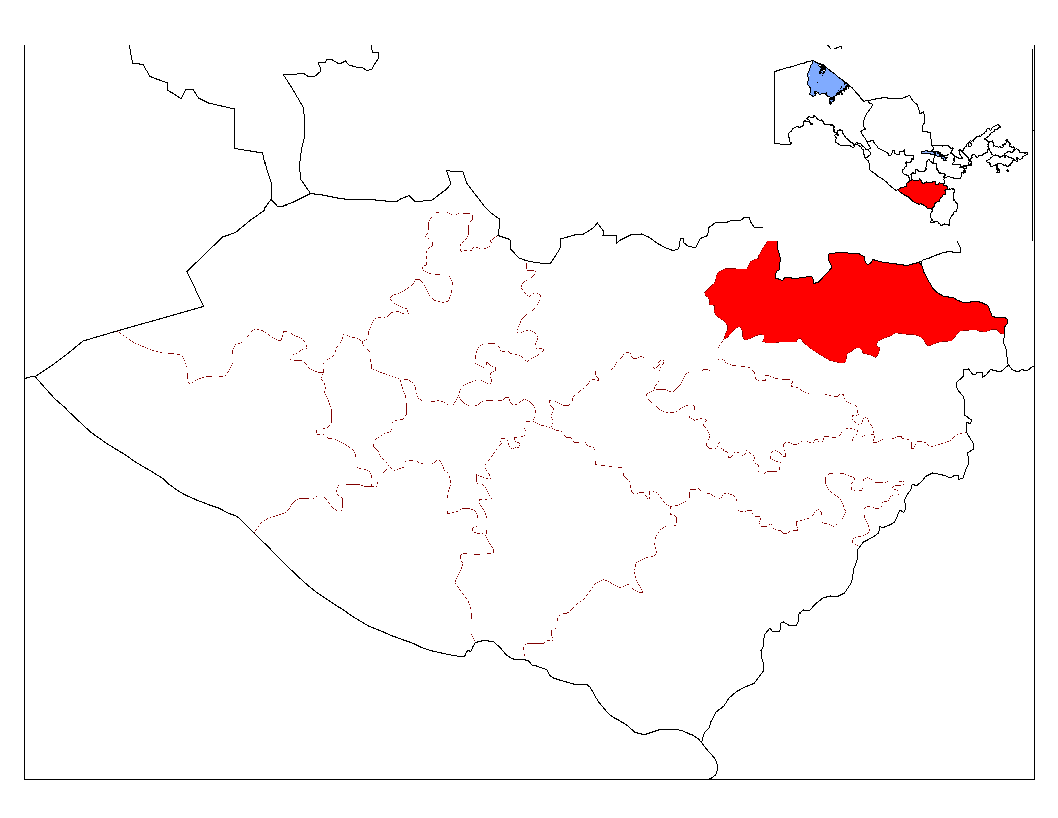 Location map of Kitob District in Qashqadaryo Province, Uzbekistan